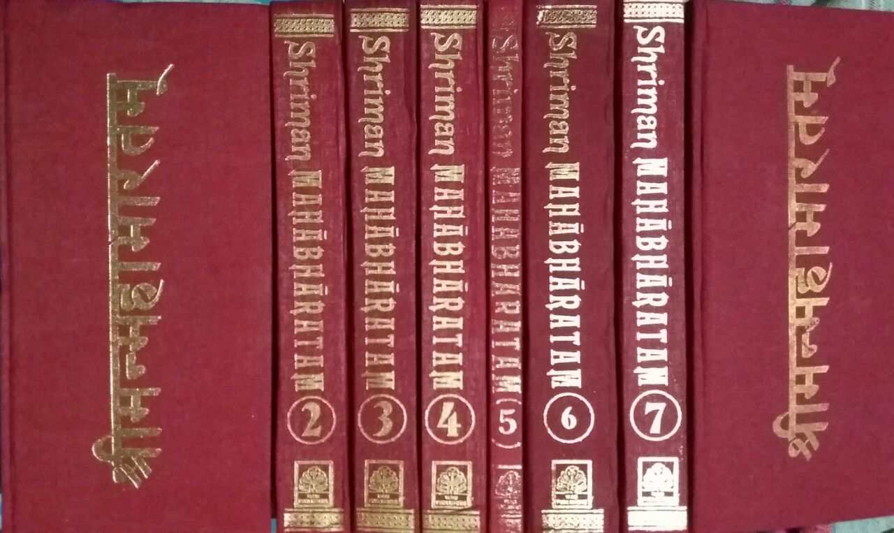 MAHABHARATA with 'Bharatabhawadeep' by Nilkantha Chaturdhar